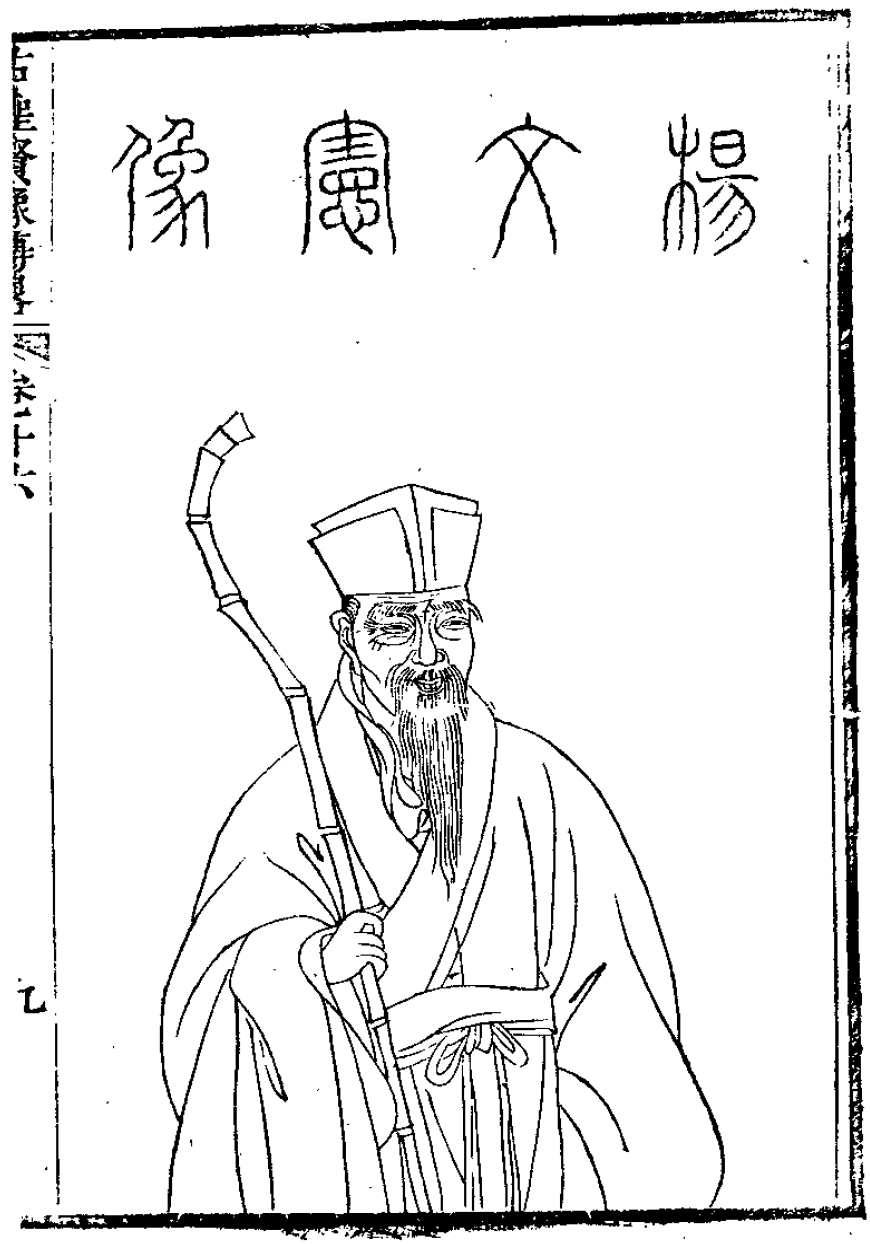 Yang Shen (楊慎; 1488–1559), son of Yang Tinghe, zi Yòngxiū (用修), hao Shēng'ān (升庵), also hao Bonanshanren (博南山人), Bonanshushi (博南戍史), was a poet in the Ming Dynasty.